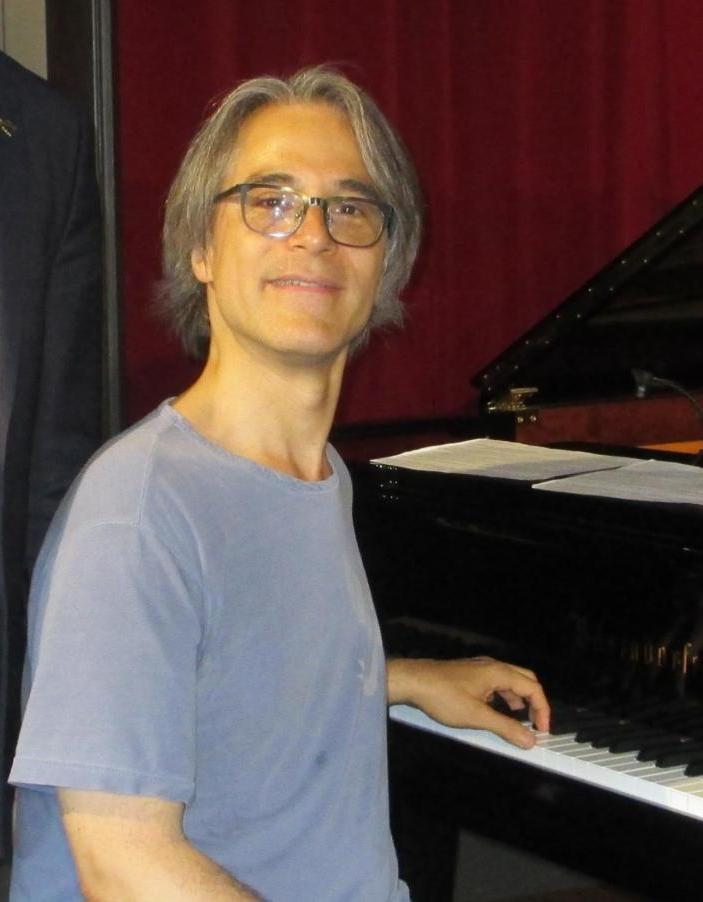 Danish musician Niels Lan DokyPlace: The Standard, Copenhagen, Denmark